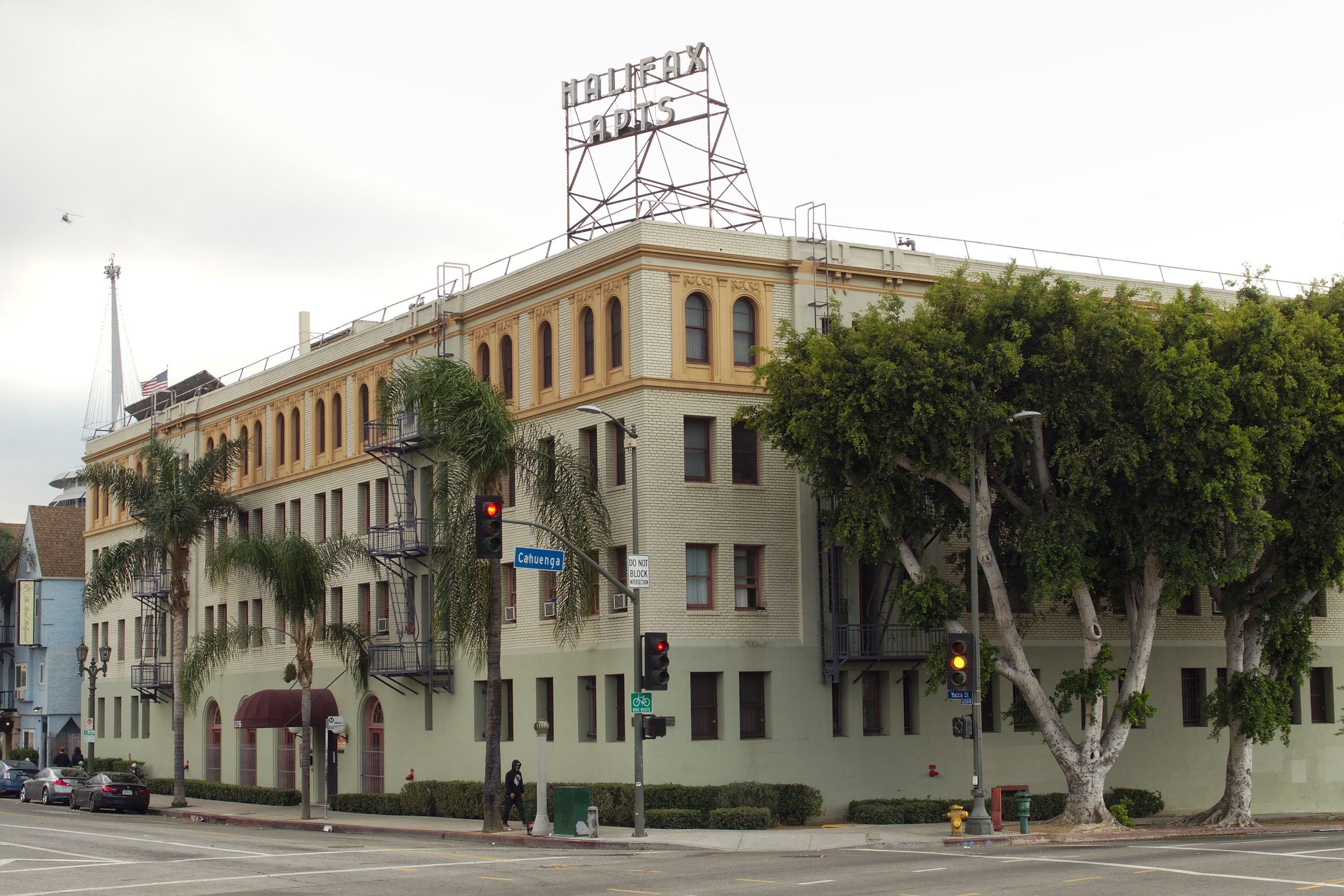 The Halifax Apartments at 6376 Yucca St. in Hollywood, view from northwest, across Yucca and Cahuenga Boulevard.